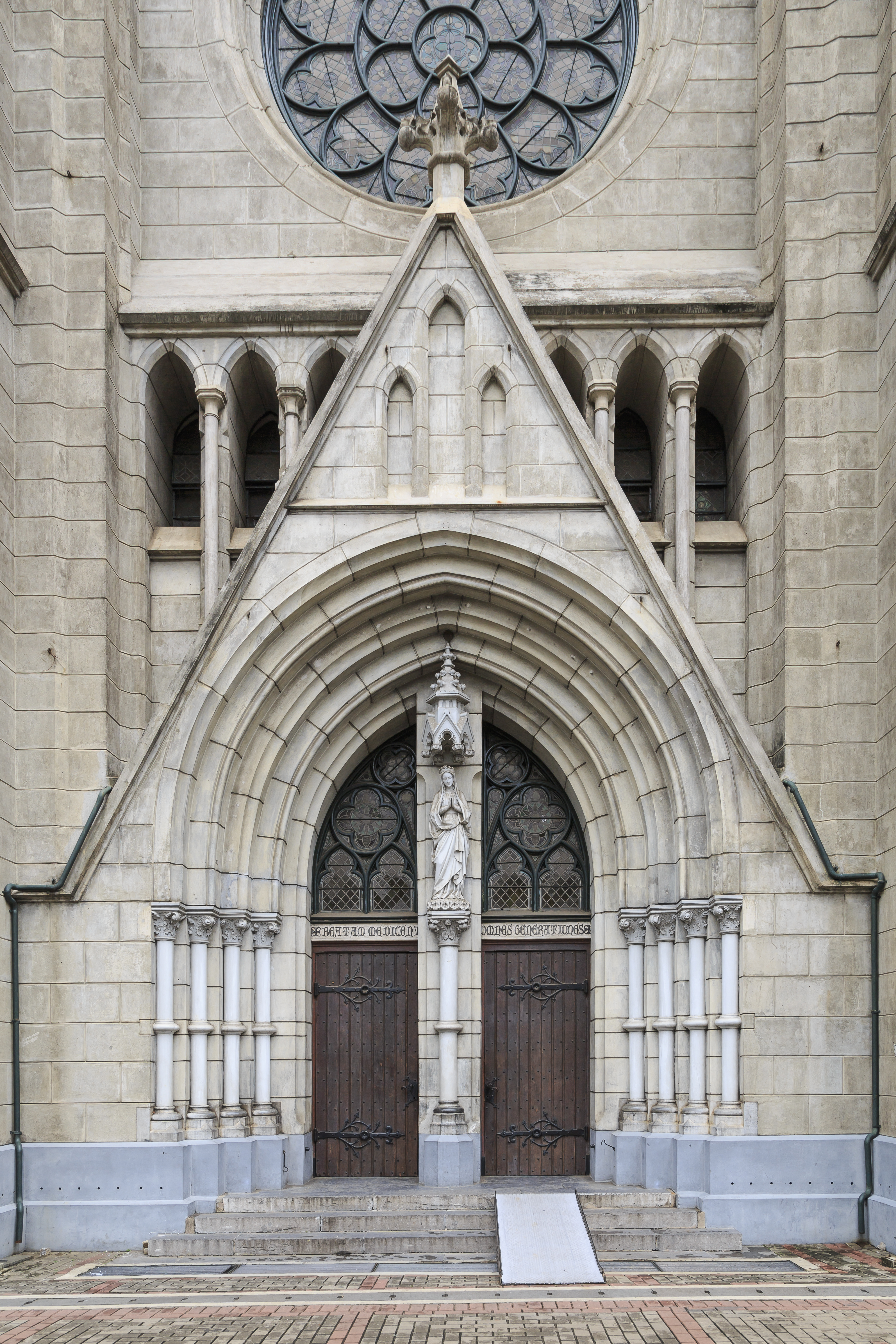 Jakarta, Indonesia: Main entrance of Jakarta Cathedral with statue of Our Lady Mary. On top of the portal there is a sentence written in Latin: "Beatam Me Dicentes Omnes Generationes" which means "All generations shall call me blessed"